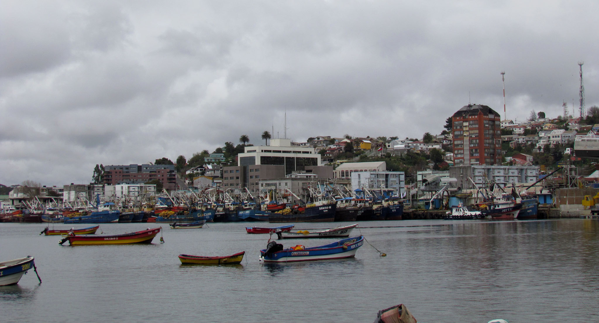 view of Talcahuano port